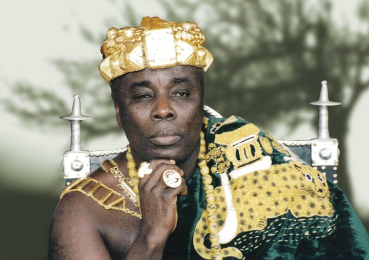 Okyenhene Osagyefuo Amoatia Ofori Panin is the reigning king of Akyem Abuakwa,an ancient powerful kingdom in the eastern region of Ghana.